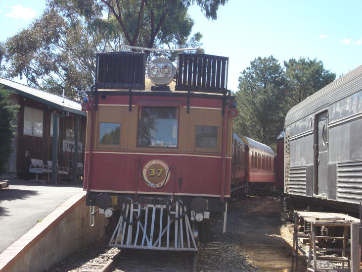 Rail Motor at the Canberra Rail Museum